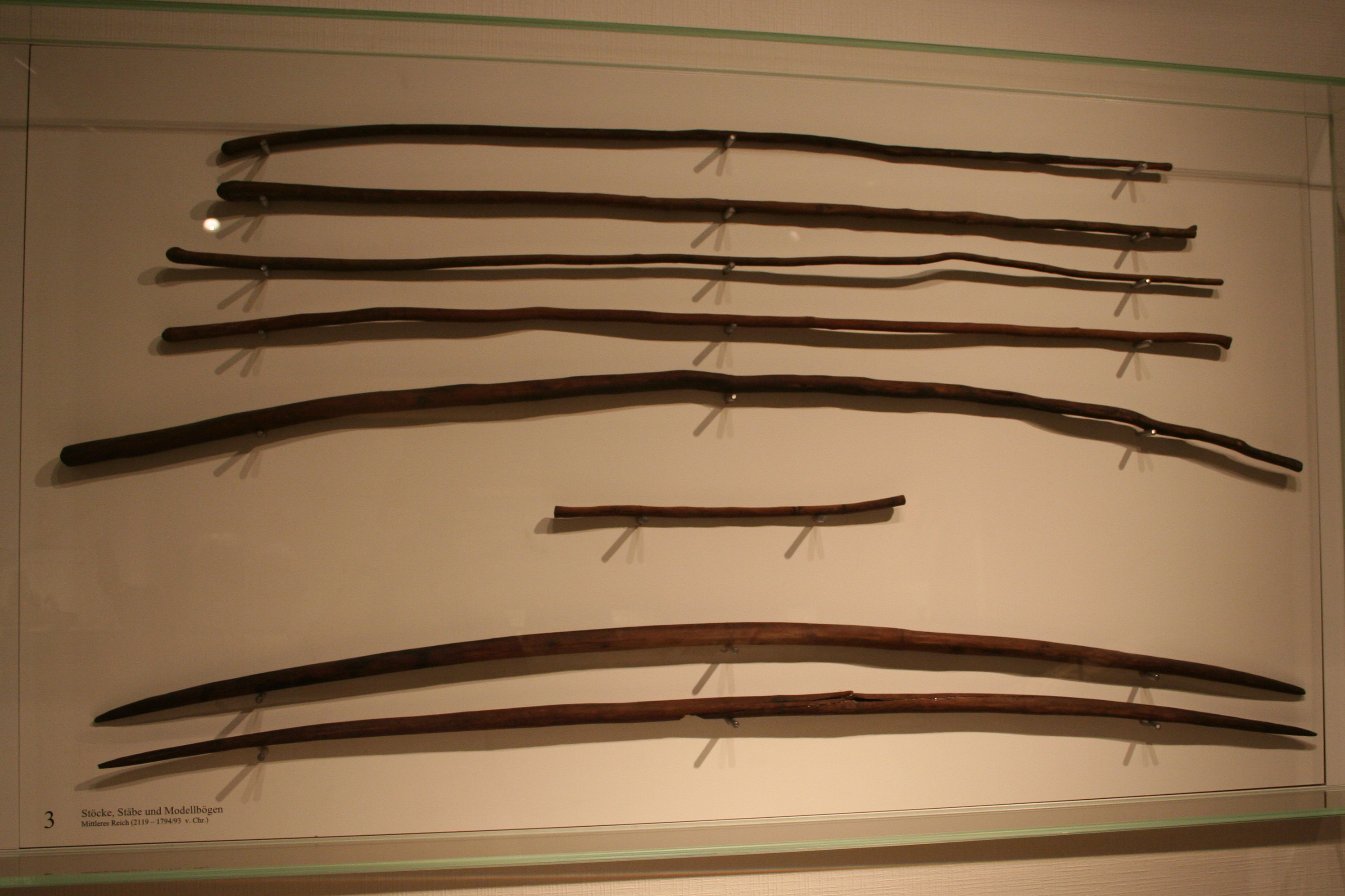 Rods from the tomb of Herishefhotep; Abusir, 9th/10th dynasty